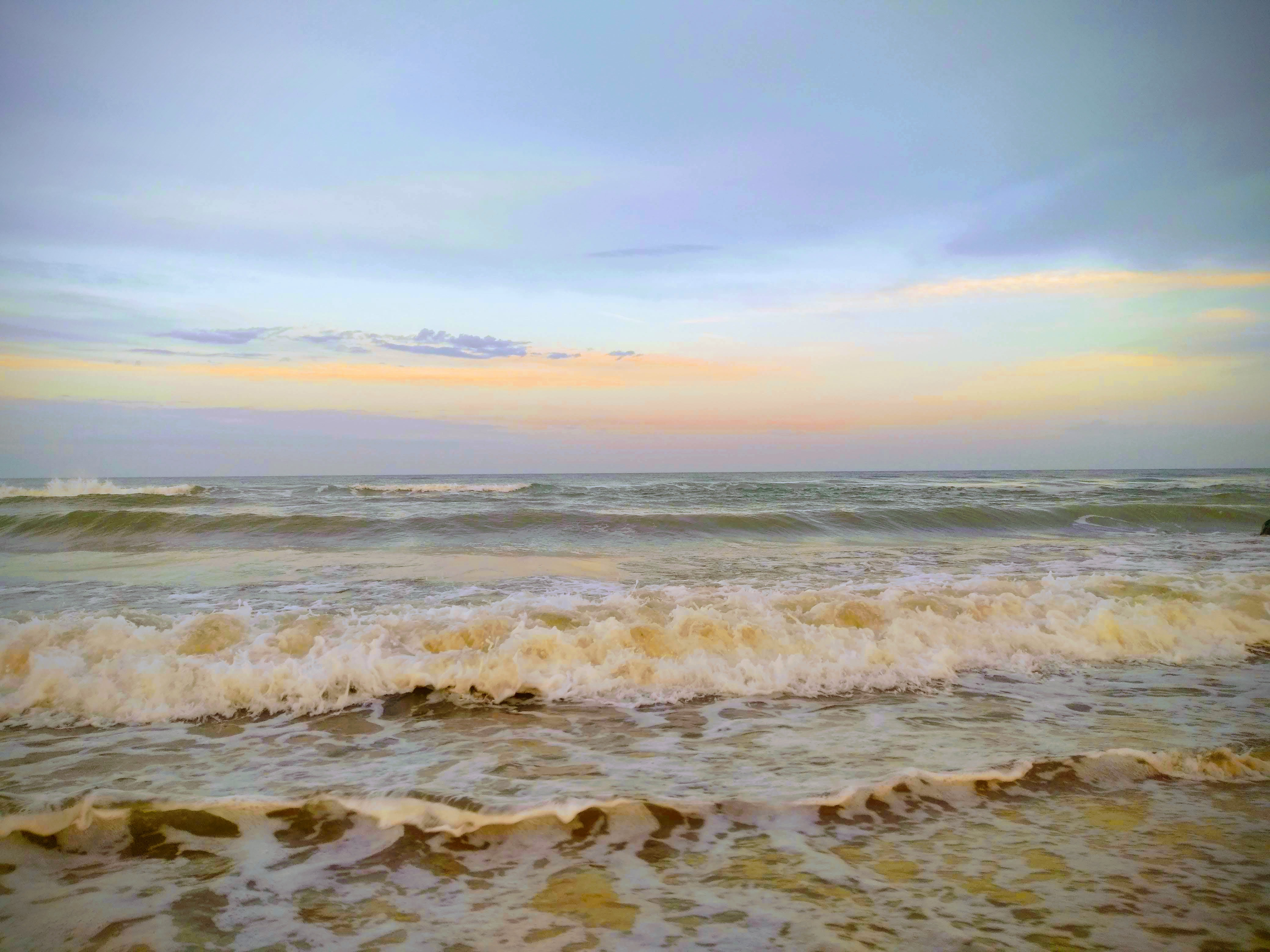 The Black Sea coast in the village Carolino Bugaz, Ovidiopolsky district, Odessa region, Ukraine